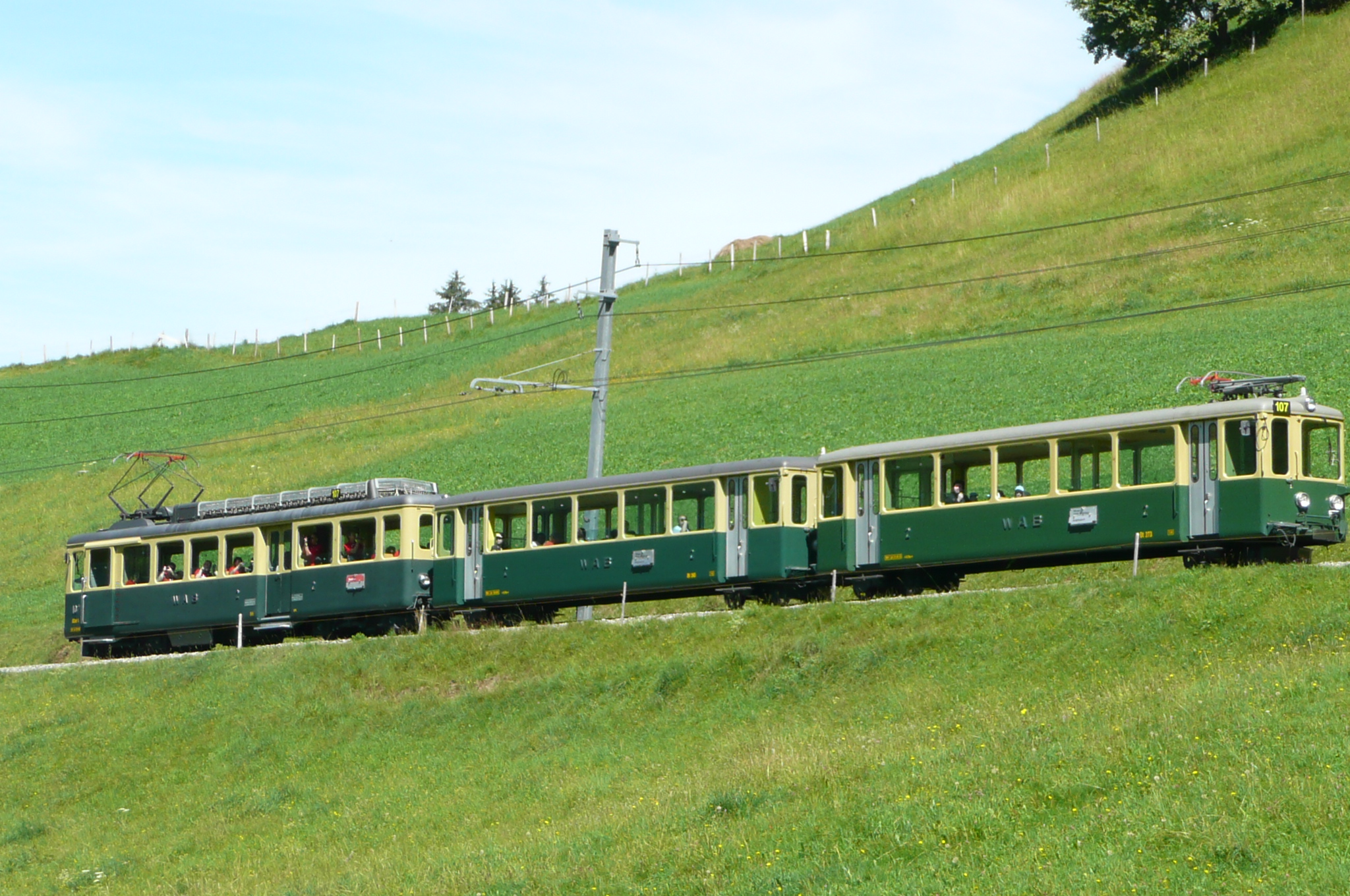 Wengernalp rack railway classic summer shuttle train composition since 1962 motor coach BDhe 4/4 107 of 1954 and passenger coaches built 1962-1968. Line Lauterbrunnen-Kleine Scheidegg – 2009-08-05